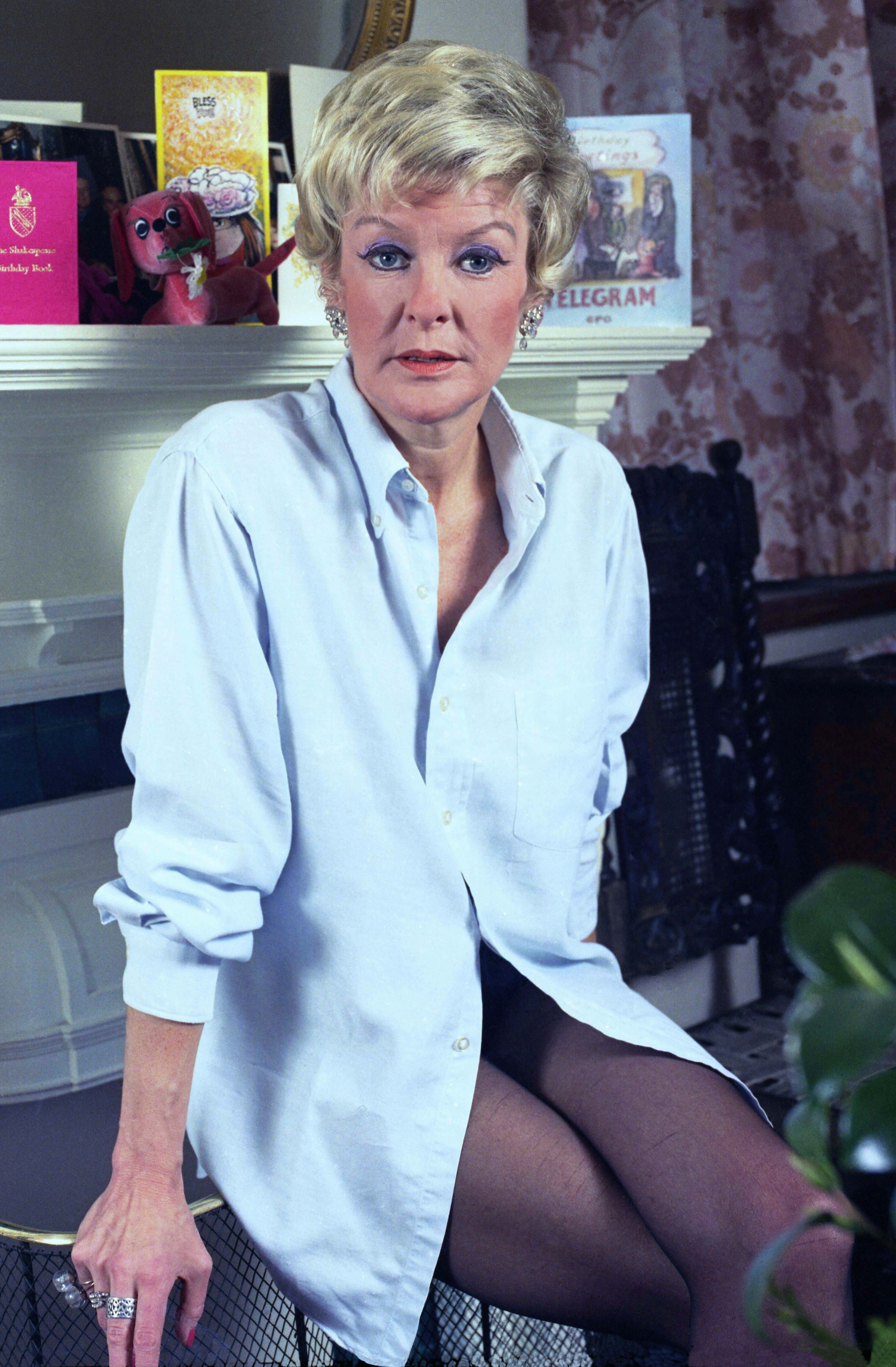 Elaine Stritch in her dressing room at the Savoy Theatre, London